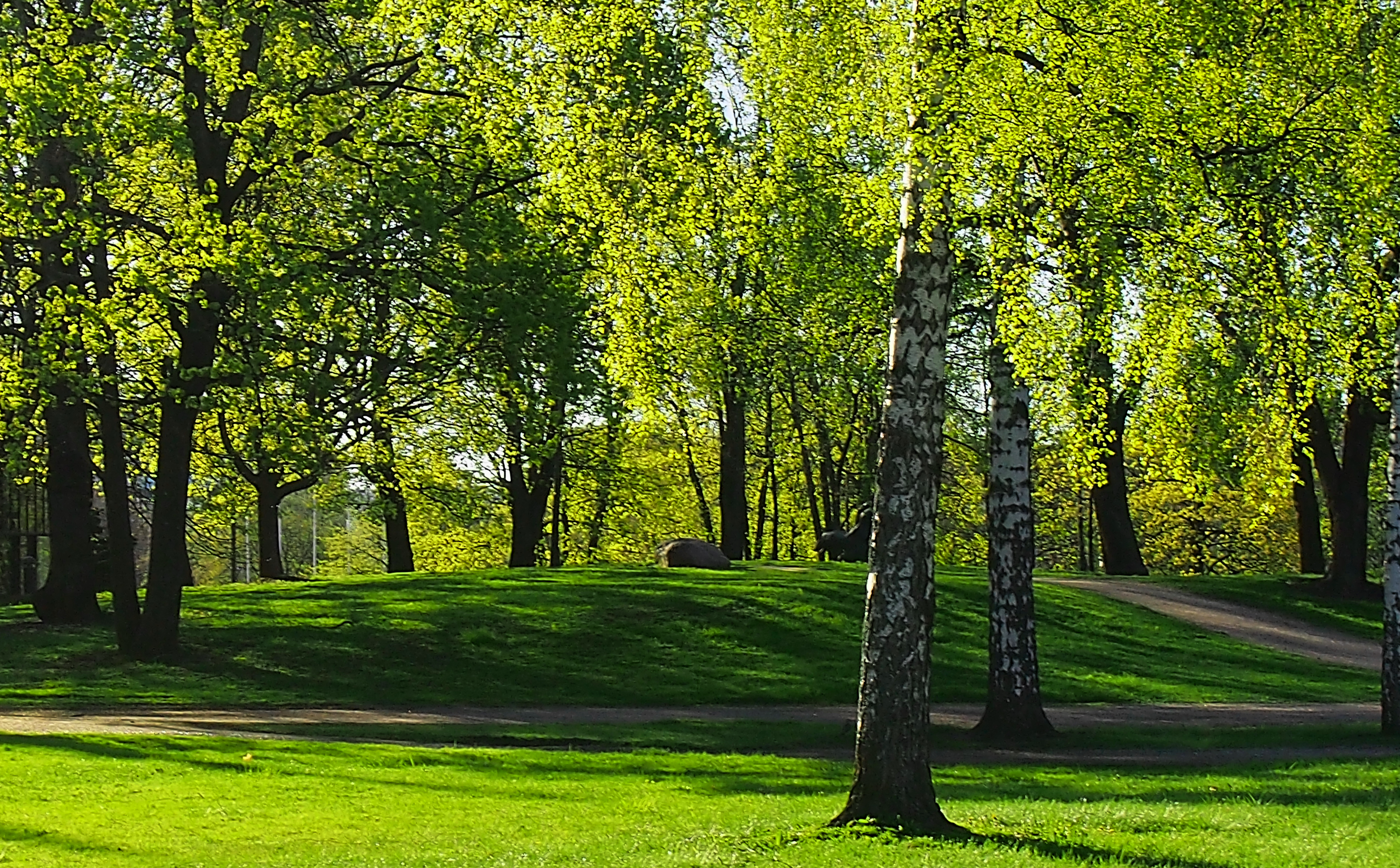 The Tarja Halonen Park (Tarja Halosen puisto) lies in the district of Kallio in Helsinki, Finland, by the Helsinki City Theater. Viewed from north-west to south-east.